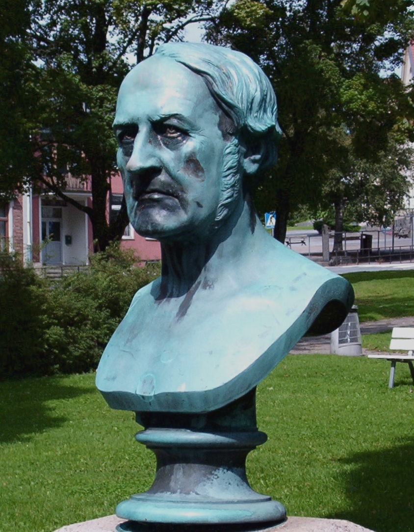 Private photo taken by the editor Hyssingen